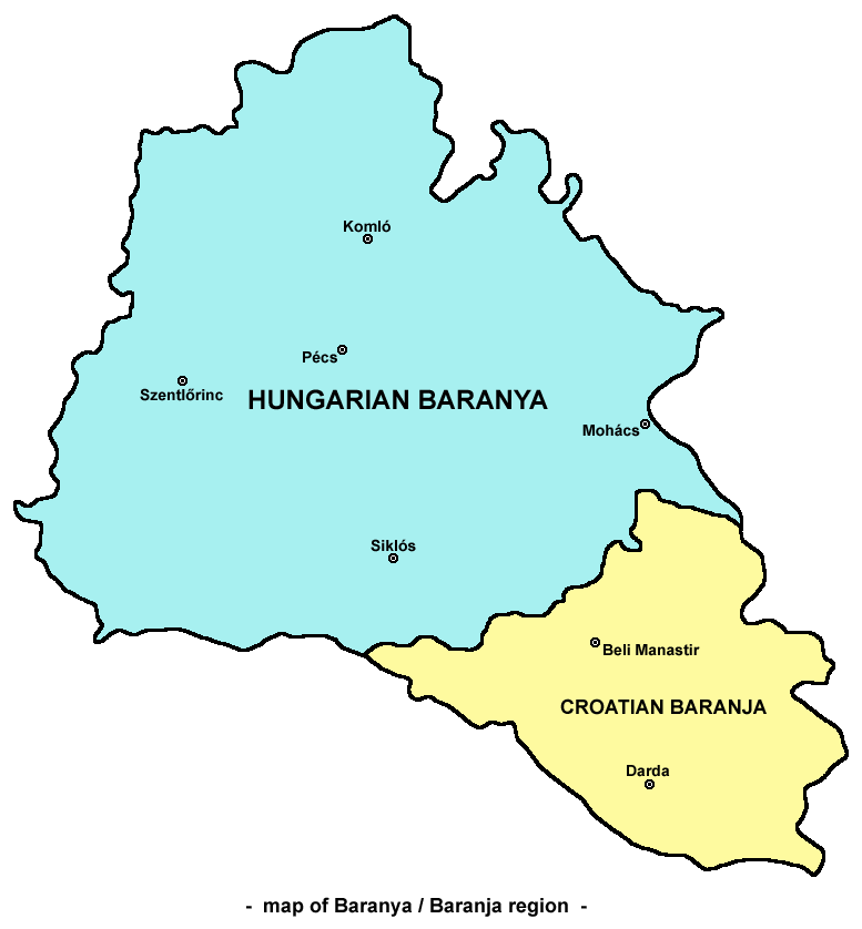 Map of Baranya / Baranja region in Hungary and Croatia. Note: it is generally accepted that southern and eastern borders of Baranya / Baranja are rivers Drava and Danube, while north-western borders are less clear. This map show north-western borders of the region in accordance with borders of historical Baranya county in the Kingdom of Hungary, but according to other interpretations, north-western border of Baranya / Baranja is either Mecsek mountain either Balaton lake.